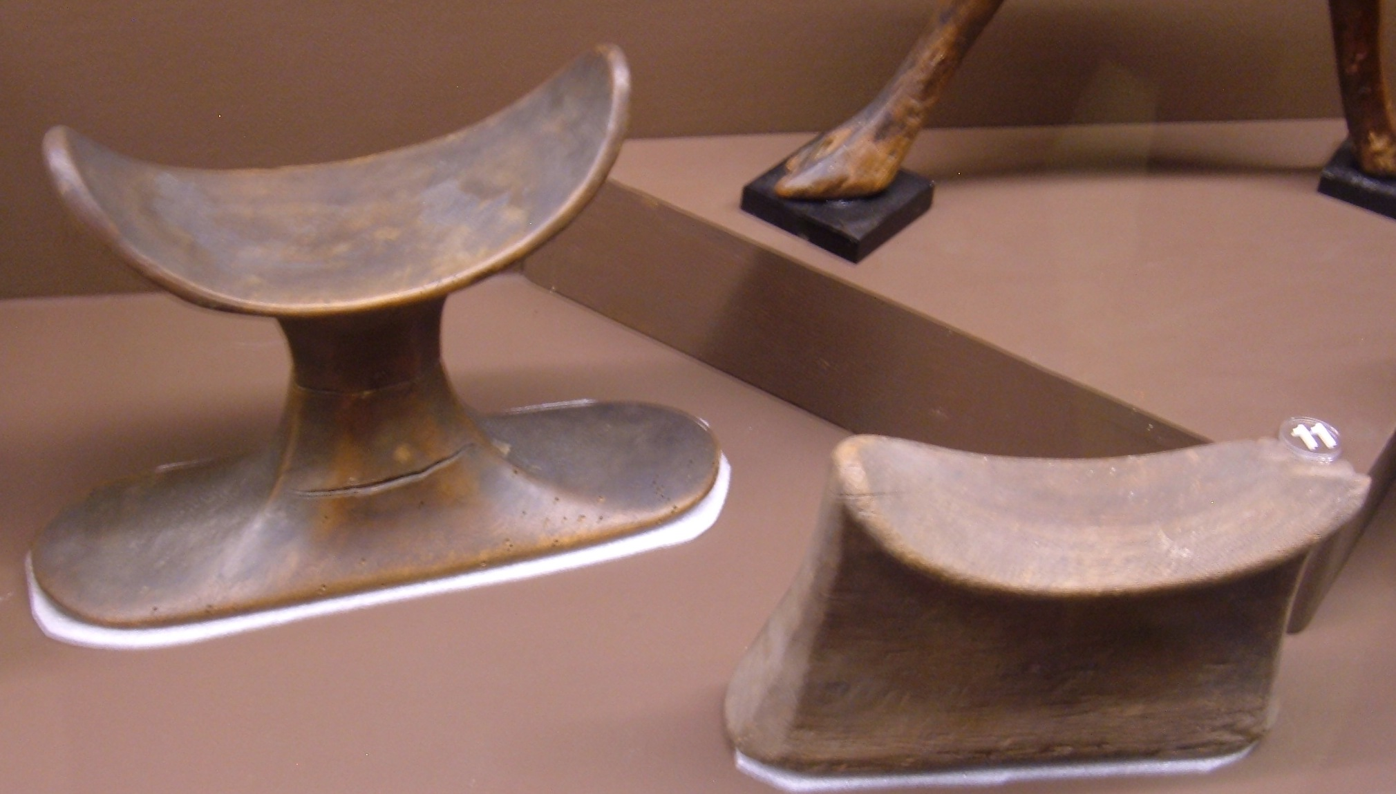 Pair of wooden headrests (Old Kingdom-New Kingdom) made to support the neck while protecting elaborate hairstyles on display at the Rosicrucian Egyptian Museum in San Jose, California. RC 1612, 1762